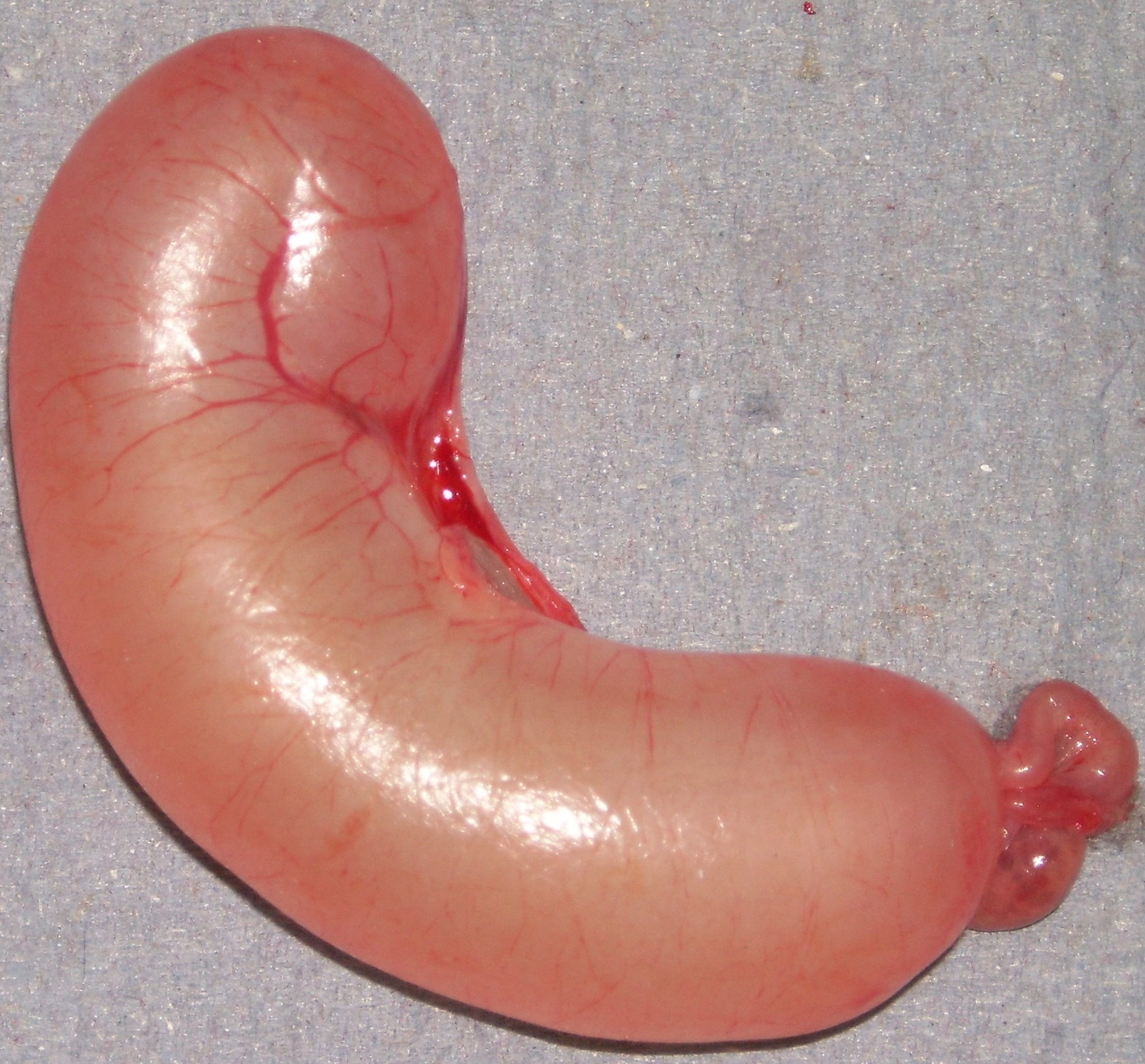 mucometra in the left uterine horn tip of a female cat due to segmental aplasia of the Mullerian duct (diameter approx. 4 cm)